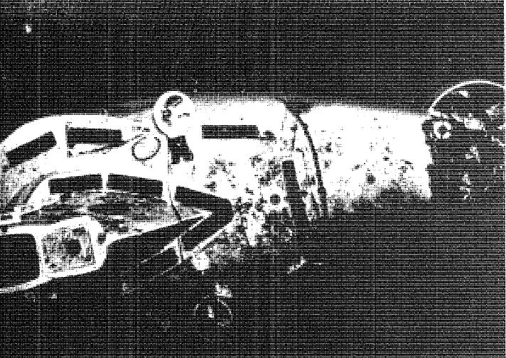 The deep submergence vehicle DSV Alvin on the bottom of the Atlantic Ocean after sinking on 16 October 1968, photographed in June 1969 by the United States Navy oceanographic research ship USNS Mizar (T-AGOR-11).